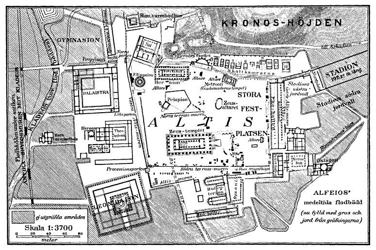 Plan of ancient Olympia taken from the public domain publication Nordisk Familjebok. Legend in Swedish. After Wilhelm Dörpfeld.